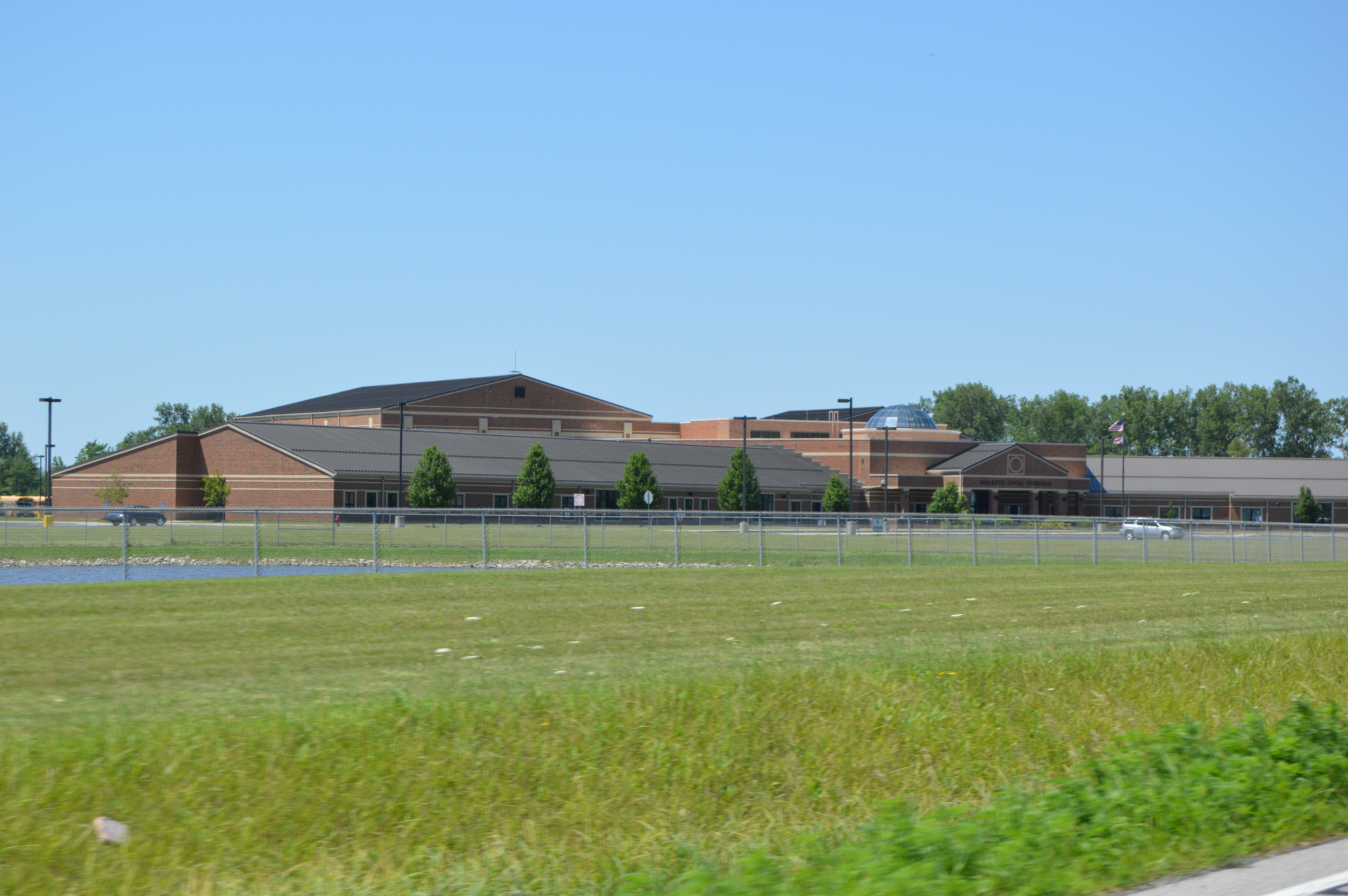 Front of Holgate High School, located at 801 E. State Route 18 in Holgate, Ohio, United States.